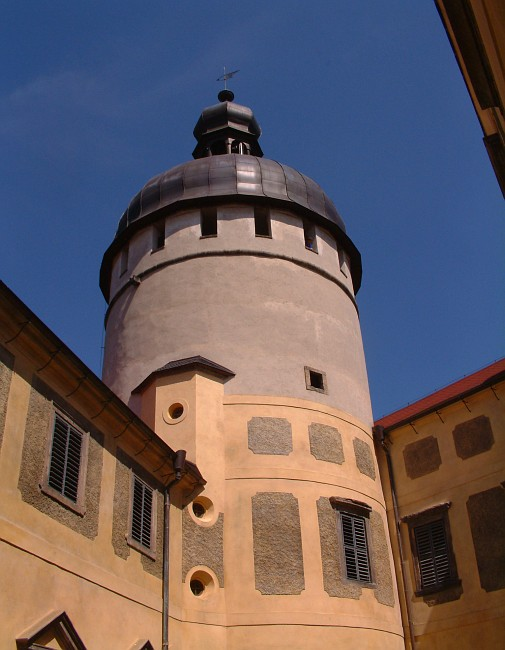 Grabštejn Castle, Liberec District, Czech Republic